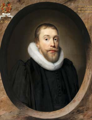 Portrait of Willem Thielen, minister of the Dutch church in London by Cornelis Jonson van Ceulen, 1634. Painting on panel, 78.7 x 62.7 cm, Museum Catharijneconvent, Utrecht